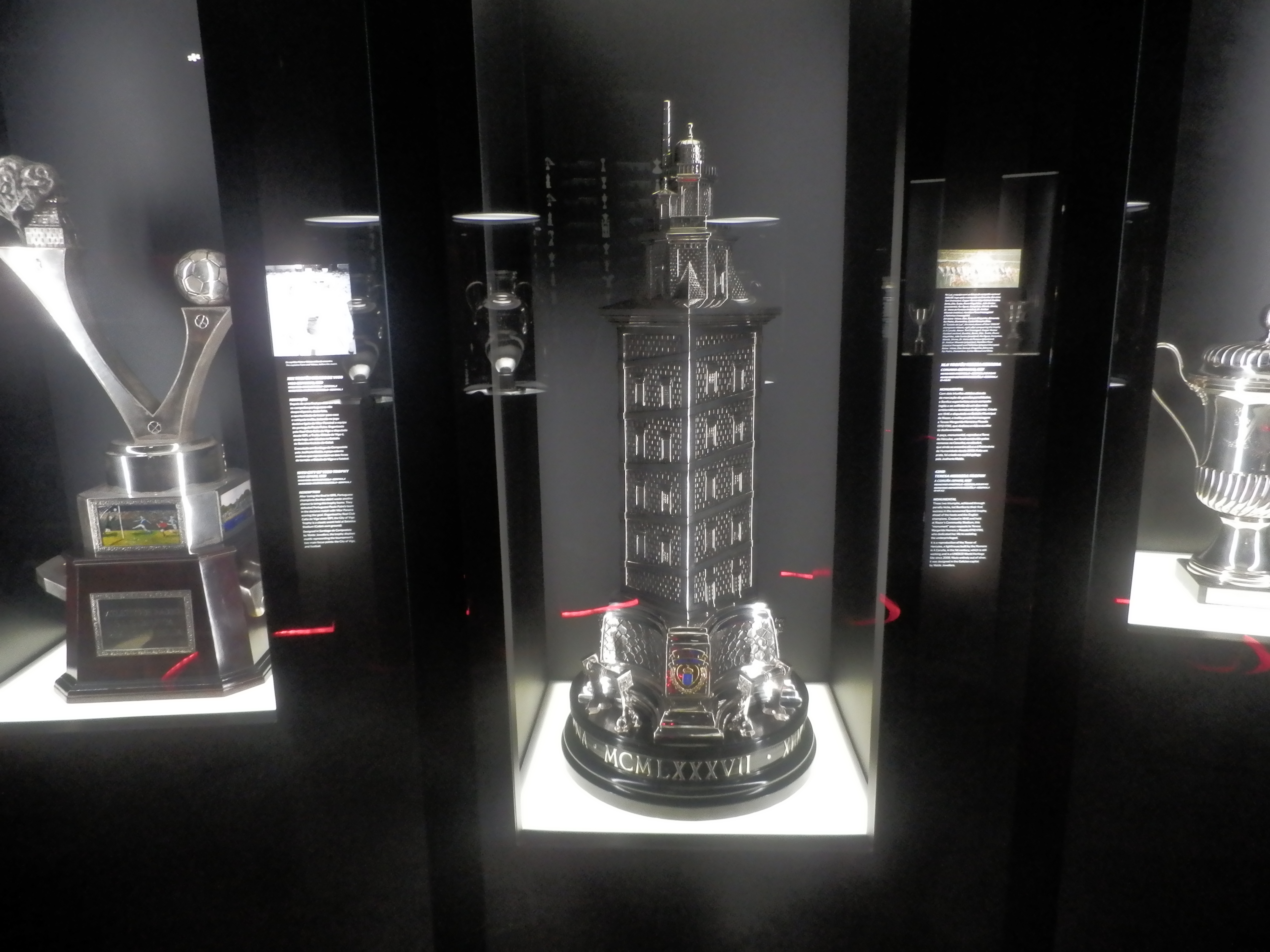 1987 Teresa Herrera Trophy